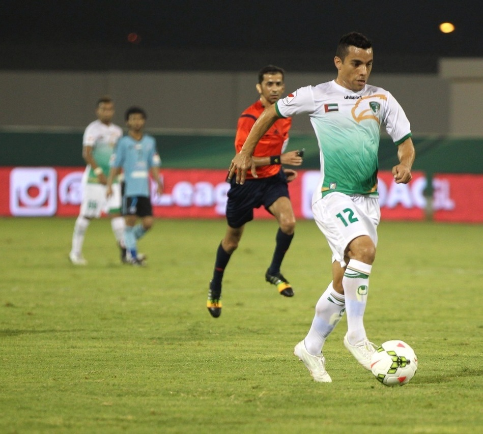 Rodrigo Souza Silva playing for Emirates against Bani Yas Club. 5 November 2014 Bani Yas Stadium Photographer email id